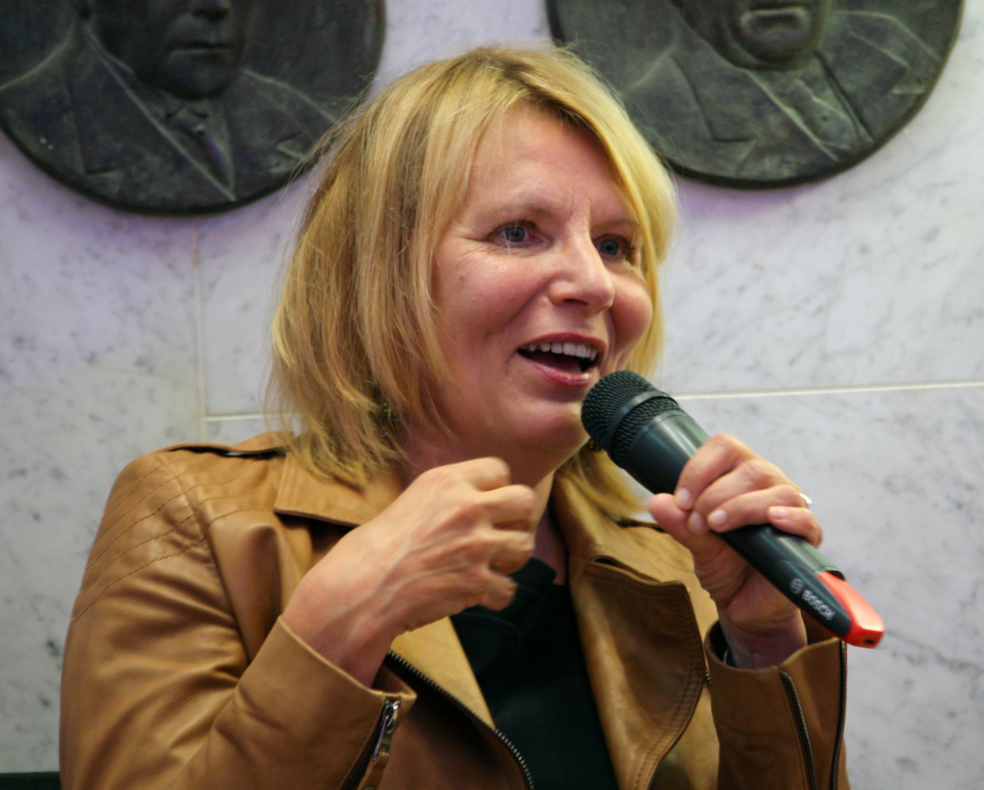 Finnish writer Heidi Köngäs on the Night of The Arts in Helsinki 2012